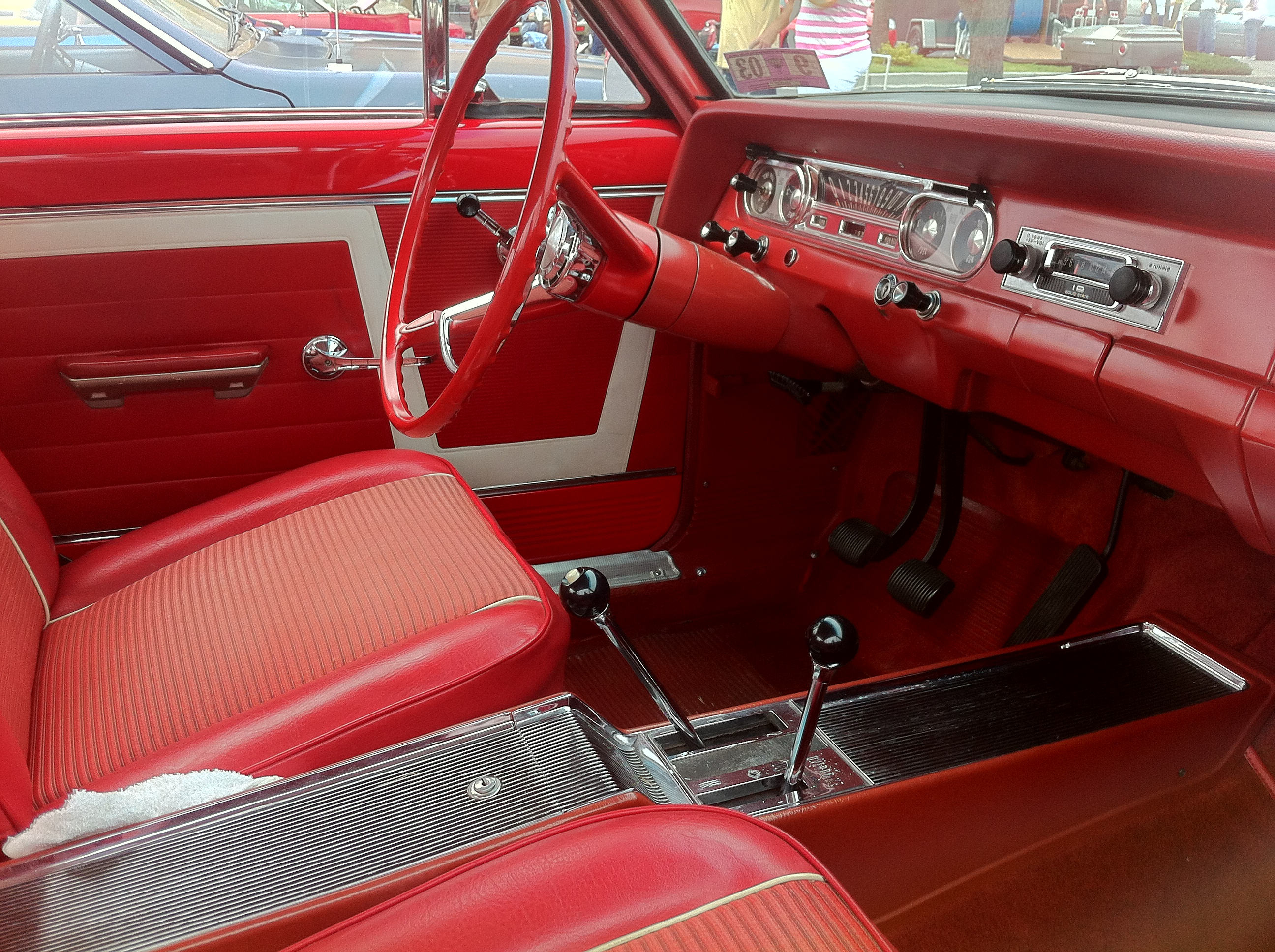 Interior of a 1964 Rambler American 440-H, a sporty two-door hardtop (no "B-pillar") manufactured by American Motors Corporation (AMC). This was the top of the line model with standard bucket seats and this model features AMC's innovative "Twin-Stick" center console mounted manual transmission with overdrive. Photographed at the 2014 American Motors Owners (AMO) convention that was held in North Charleston, North Carolina, USA.